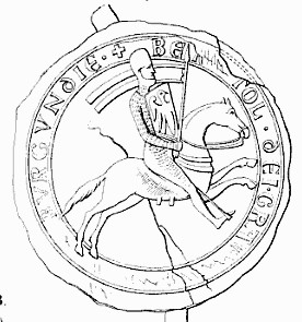 Drawing of a seal of Berthold V, Duke of Zähringen. From a document dated 1187 at Fraumünster, Zürich.